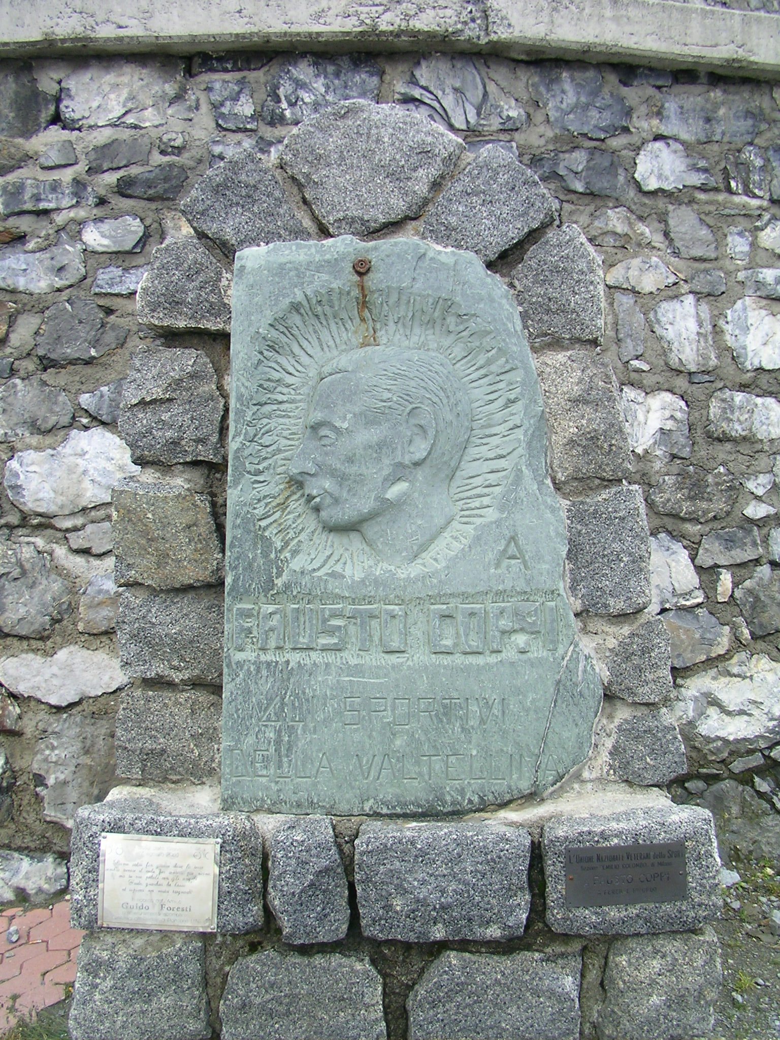 Fausto Coppi memorial on Stelvio pass